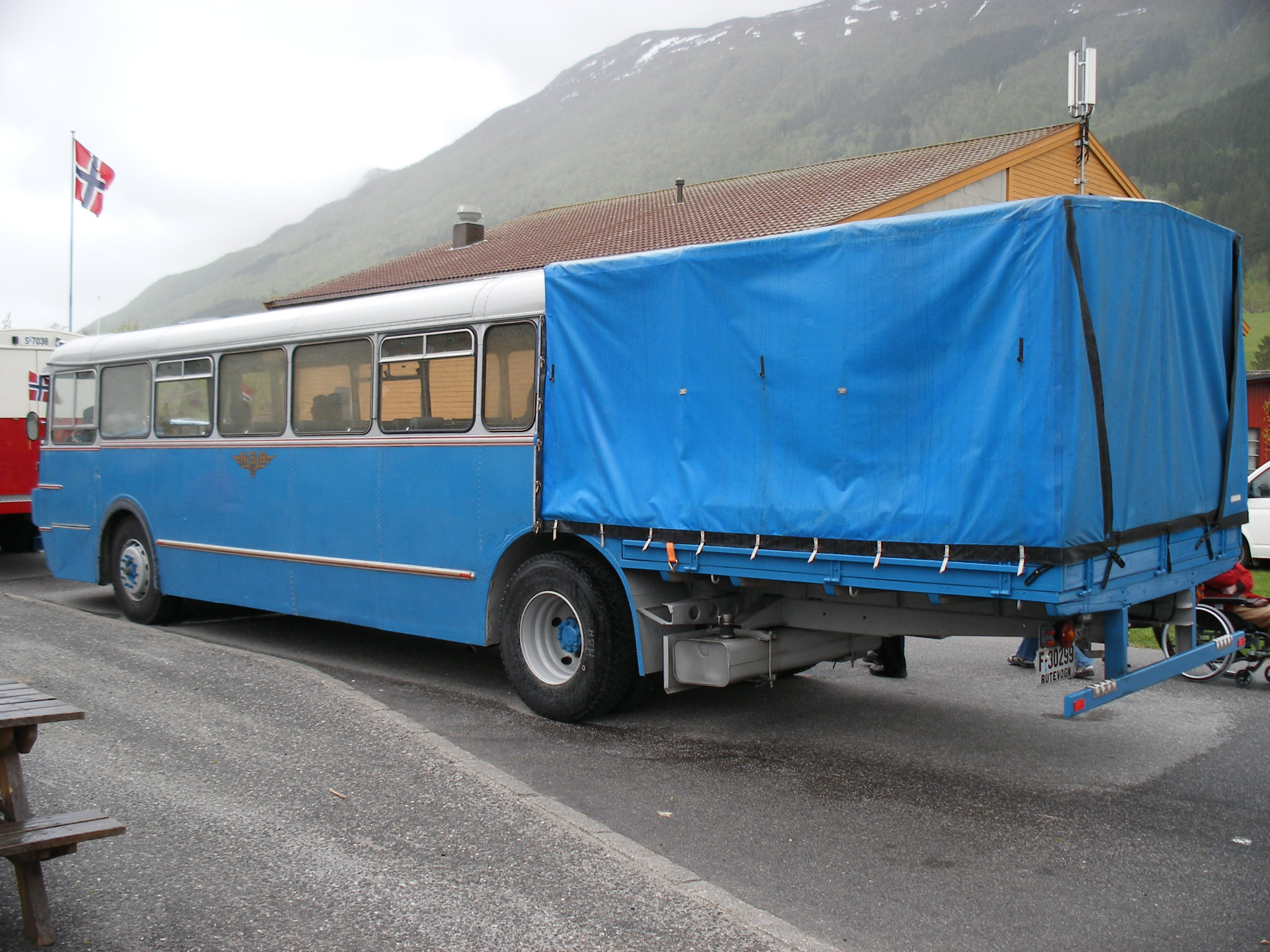 Old bus from Norway. Volvo B715 bus. Combi. NSB